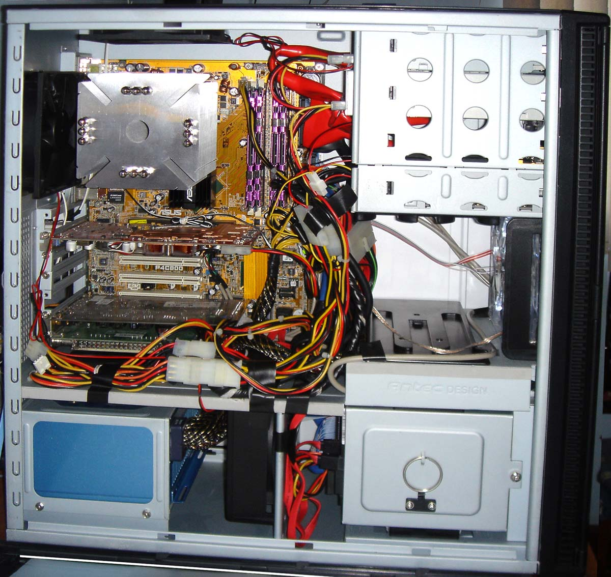 The Antec P180B, a computer case suitable for use as a silent PC. The CPU is cooled with the Scythe Ninja, a fanless cooler. Notice how the cables are taped to the sides, ensuring less obstruction of airflow, which improves cooling and reducing air turbulence, thereby reducing noise.